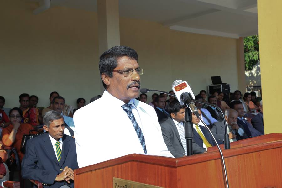 This is the present Principal of the College.